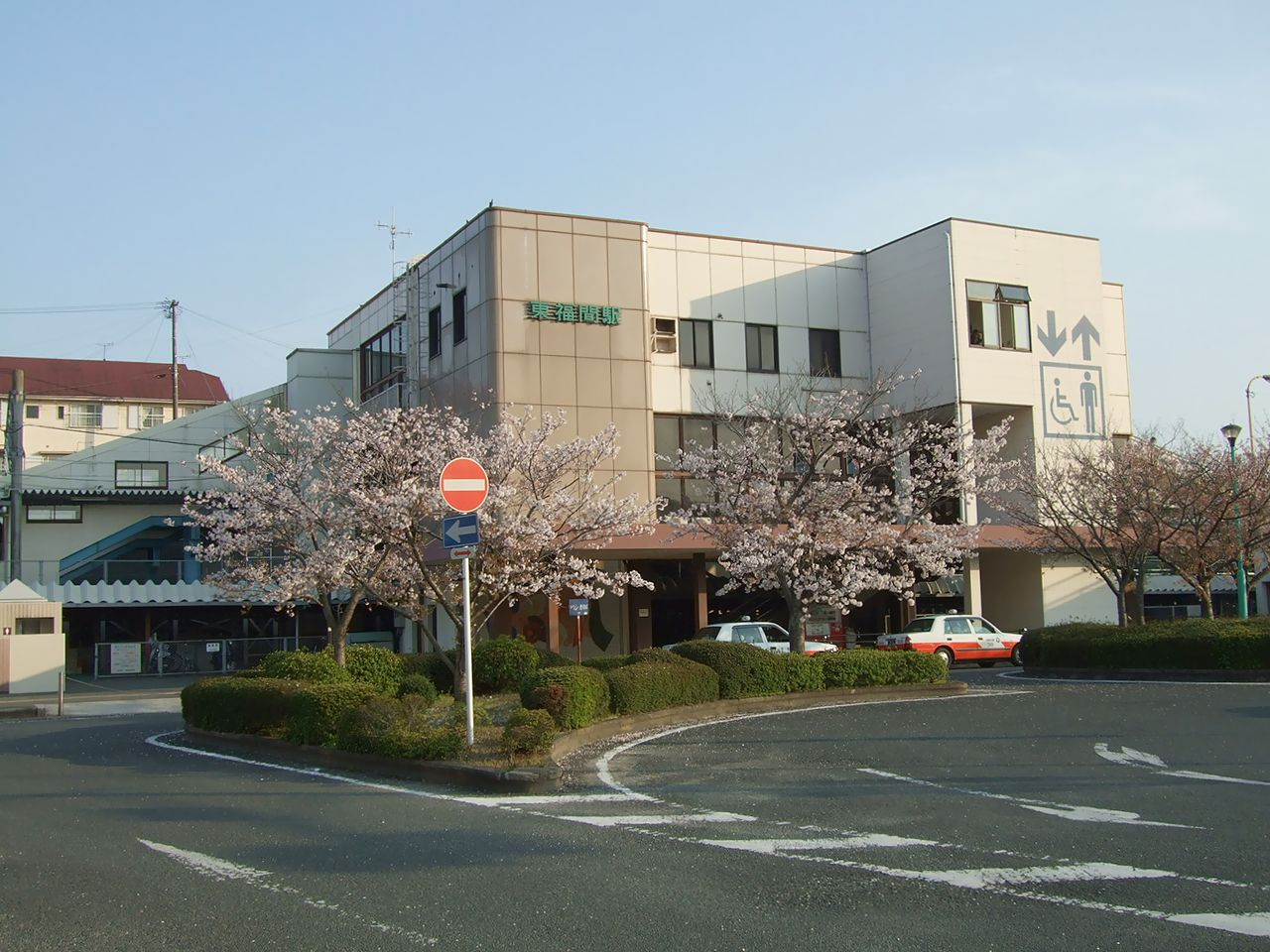 Higashi-Fukuma Station, Kagoshima Line, Kyushu Railway Company.